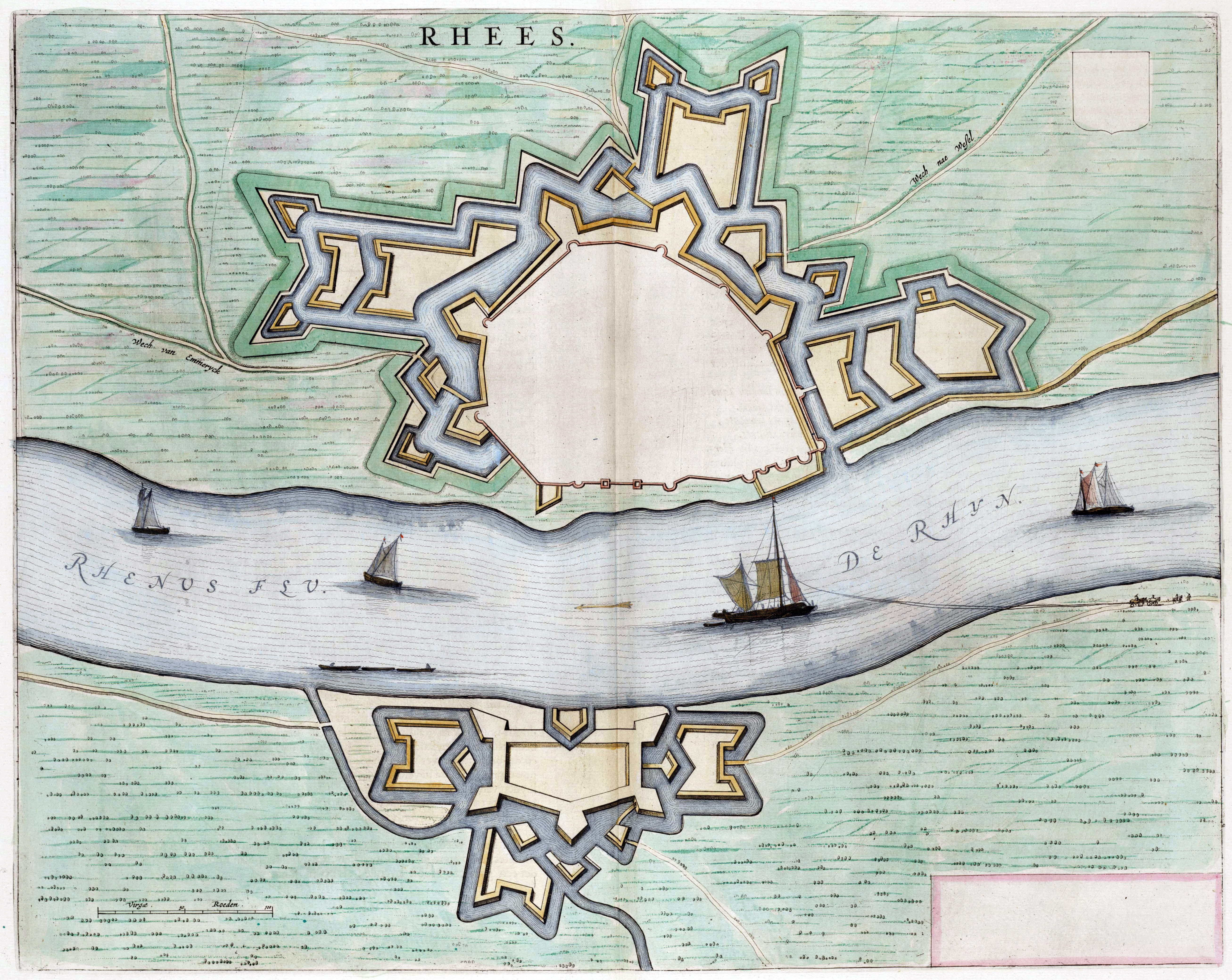 The fortifications of Rees.